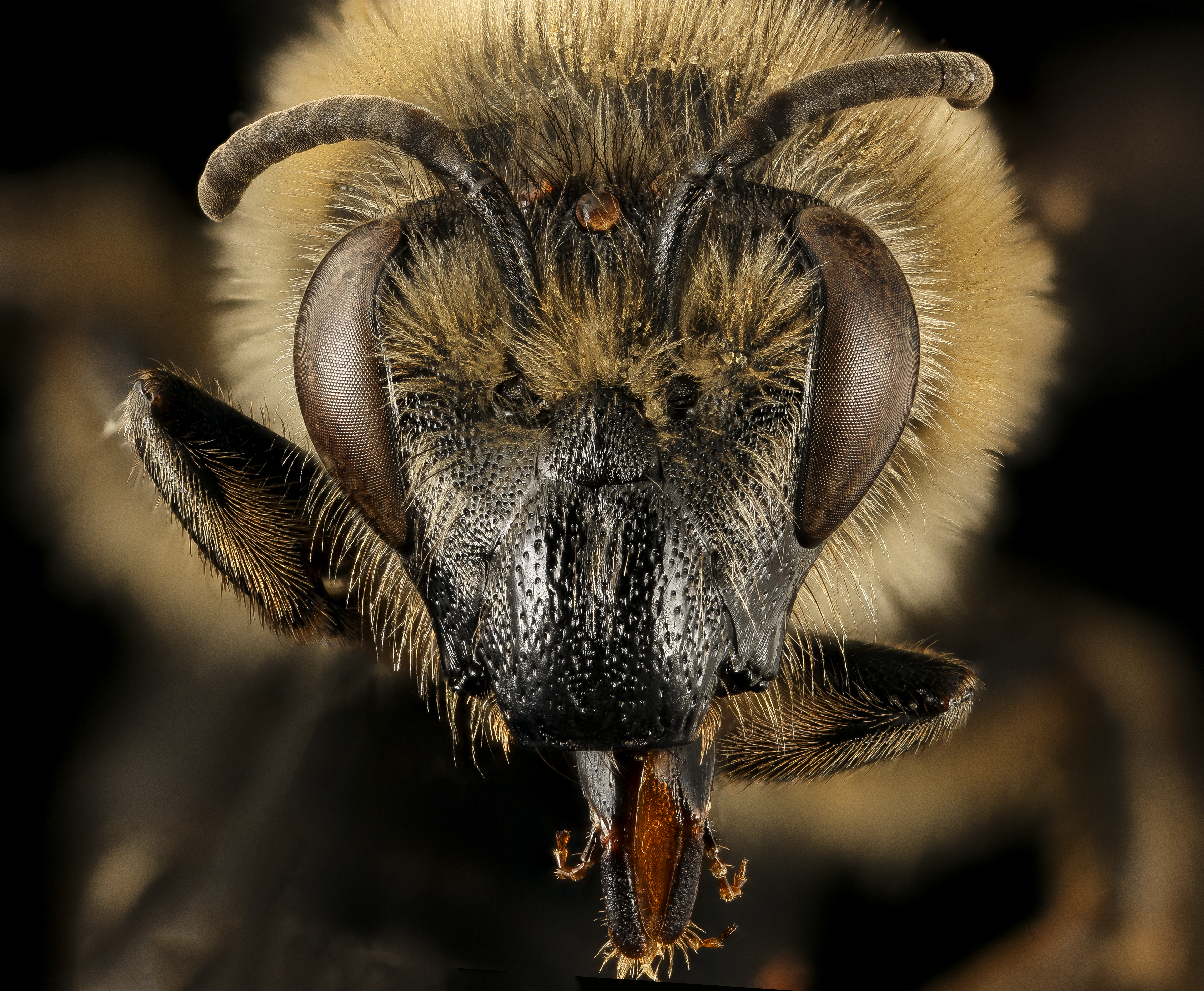 A blueberry specialist. Look how long that face is...The space between the mandible and the eye is what bee heads often use to separate species. This Colletes validus has a huggggggeeee malar space...other Colletes species essentially have none, the mandible being directly at the base of the eye. Why? Likely because the only flower this species regularly visits for pollen is Vaccinium...the blueberries. They have a very deep tube like corolla and this face help them get in there for nectar, particularly important given their short tongues. Collected by Zach Scott during a study of .... blueberry pollination in Rhode Island. Picture by Kelly Graninger. 00:46, 1 July 2017 (UTC)00:46, 1 July 2017 (UTC) 0 00:46, 1 July 2017 (UTC)00:46, 1 July 2017 (UTC) All photographs are public domain, feel free to download and use as you wish. Photography Information: Canon Mark II 5D, Zerene Stacker, Stackshot Sled, 65mm Canon MP-E 1-5X macro lens, Twin Macro Flash in Styrofoam Cooler, F5.0, ISO 100, Shutter Speed 200 Beauty is truth, truth beauty - that is all Ye know on earth and all ye need to know " Ode on a Grecian Urn" John Keats You can also follow us on Instagram - account = USGSBIML Want some Useful Links to the Techniques We Use? Well now here you go Citizen: Art Photo Book: Bees: An Up-Close Look at Pollinators Around the World Free Field Guide to Bee Genera of Maryland Basic USGSBIML set up: USGSBIML Photoshopping Technique: Note that we now have added using the burn tool at 50% opacity set to shadows to clean up the halos that bleed into the black background from "hot" color sections of the picture. PDF of Basic USGSBIML Photography Set Up: ftp://ftpext.usgs.gov/pub/er/md/laurel/Droege/How%20to%20Take%20MacroPhotographs%20of%20Insects%20BIML%20Lab2.pdf Google Hangout Demonstration of Techniques: or Excellent Technical Form on Stacking: Contact information: Sam Droege 301 497 5840